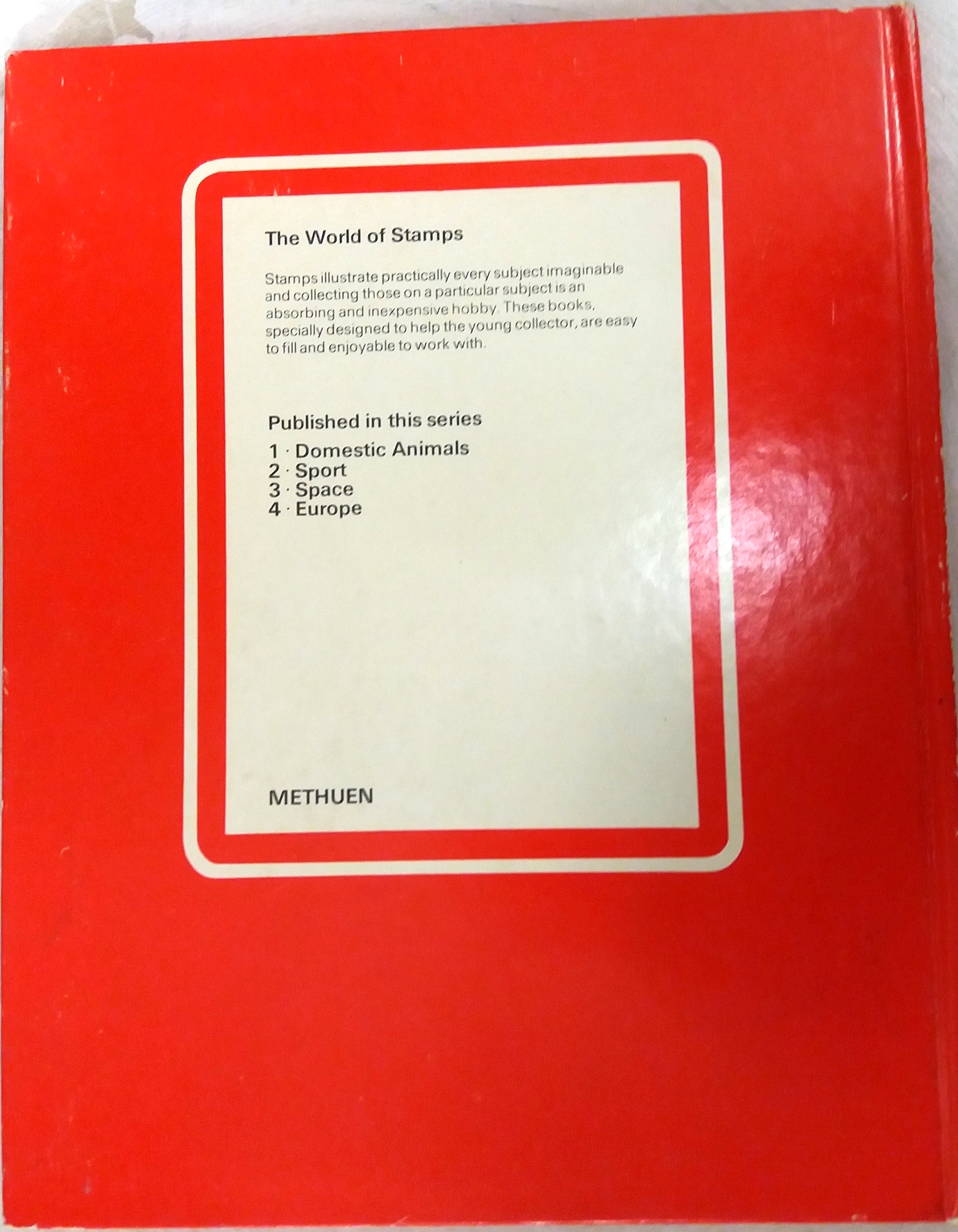 Back cover of the Methuen Stamp Album: Space.